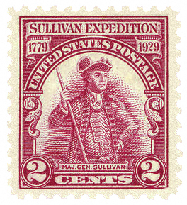 Postage stamp, USA, 1929: Gen. Sullivan's expedition of 1779.